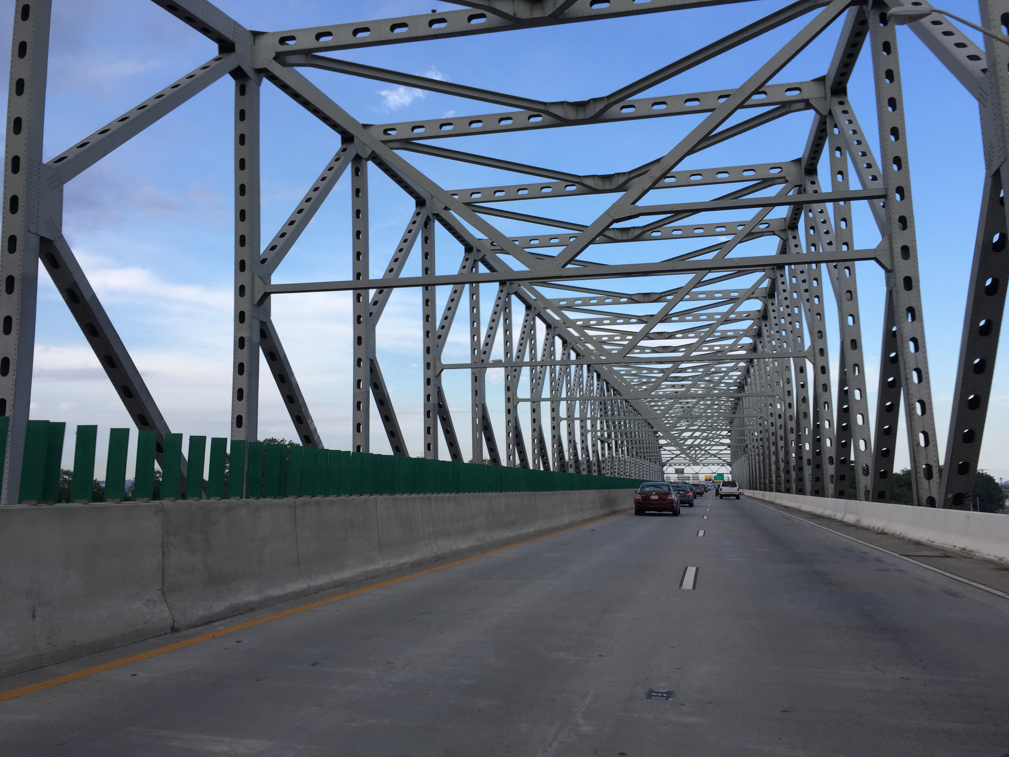 View north along Interstate 895 (Baltimore Harbor Tunnel Thruway) as it crosses over the CSX's Curtis Bay Branch rail line in Baltimore City, Maryland